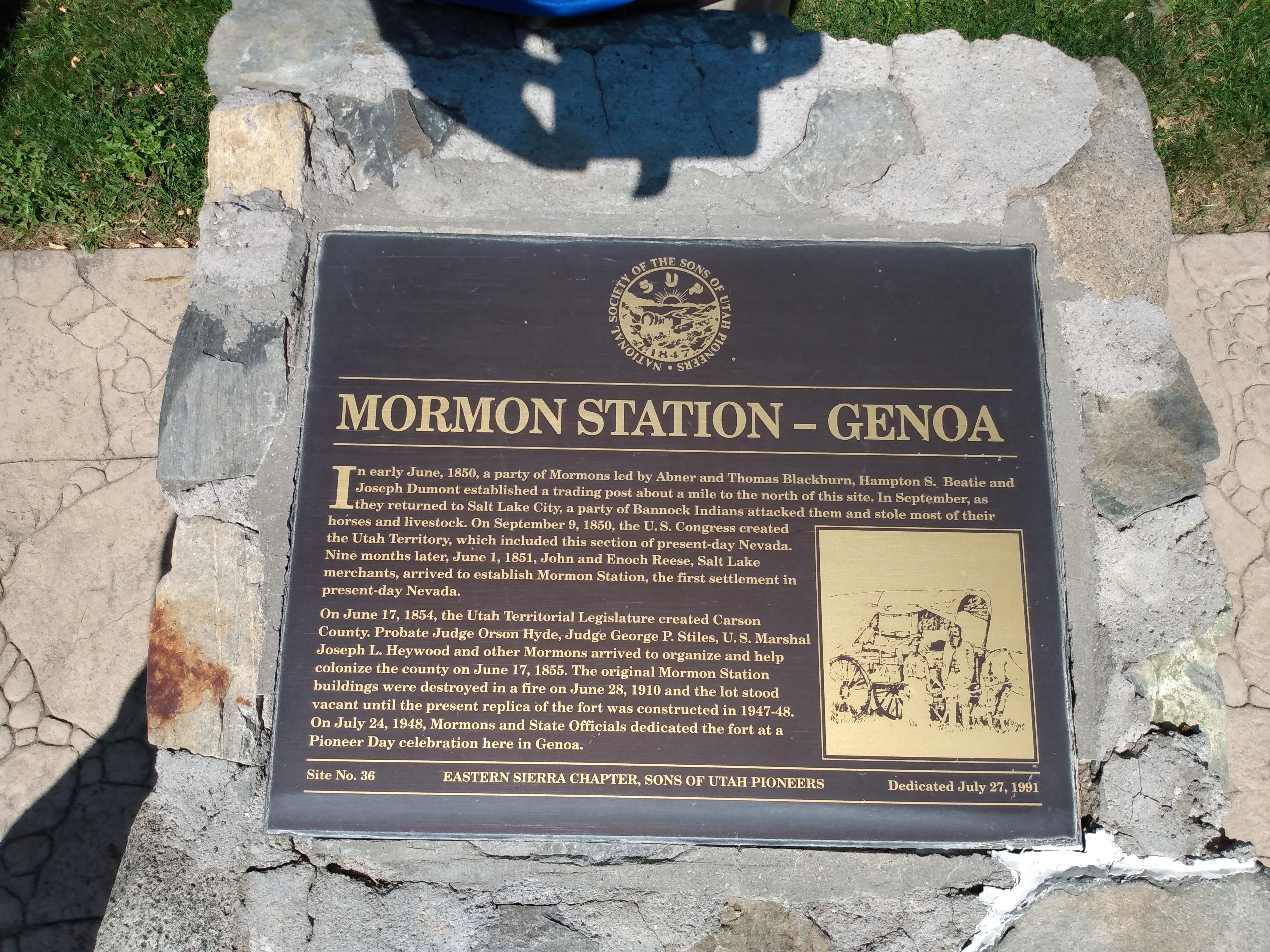 Plaque at Mormon Station State Park Genoa Nevada